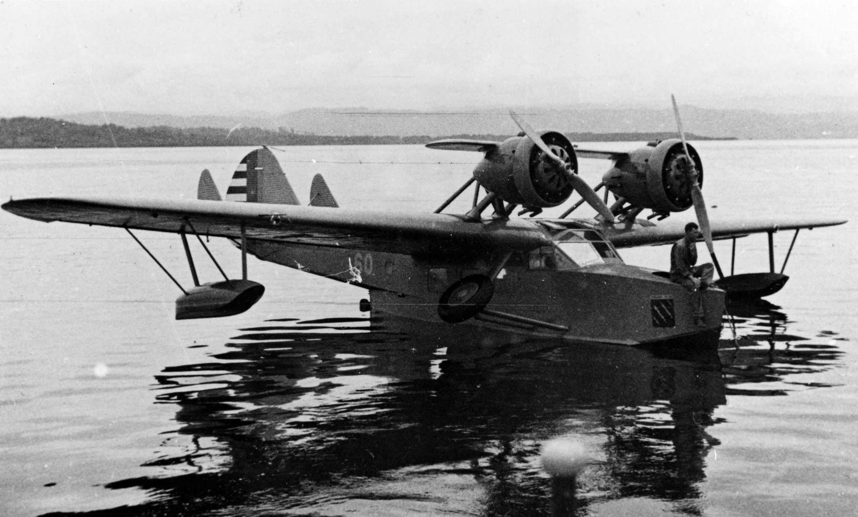 A U.S. Army Air Corps Douglas OA-3 Dolphin amphibian. The type was originally designated Y1C-21 in 1931, then C-21 until 1933. Three aircraft were procured (s/n 32-379 to 32-286).